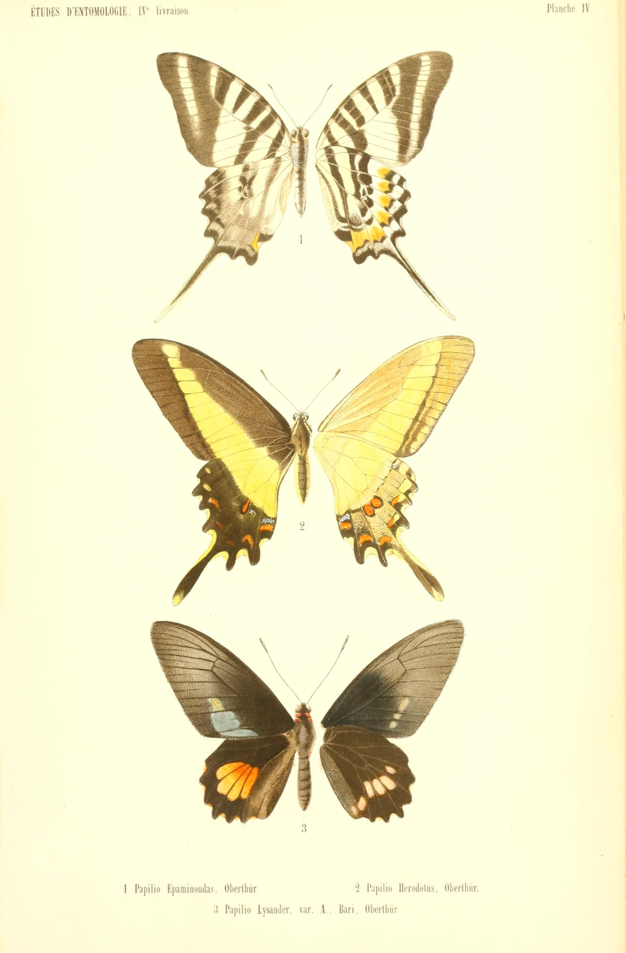 1: Andaman Swordtail from Port Blair (Andaman Islands), male3: Lysander Cattleheart (orange-spotted form) from Île Portal (French Guiana), male